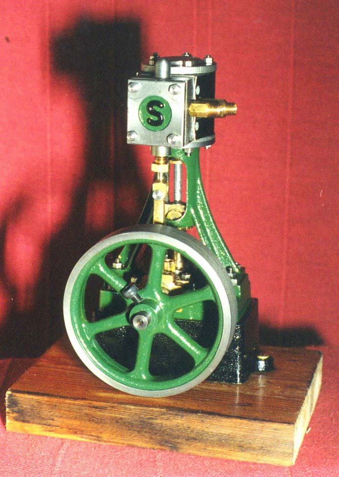 The Stuart No10 steam engine (made from a set of castingsa nd fixings) is a classic first project for many model engineers.